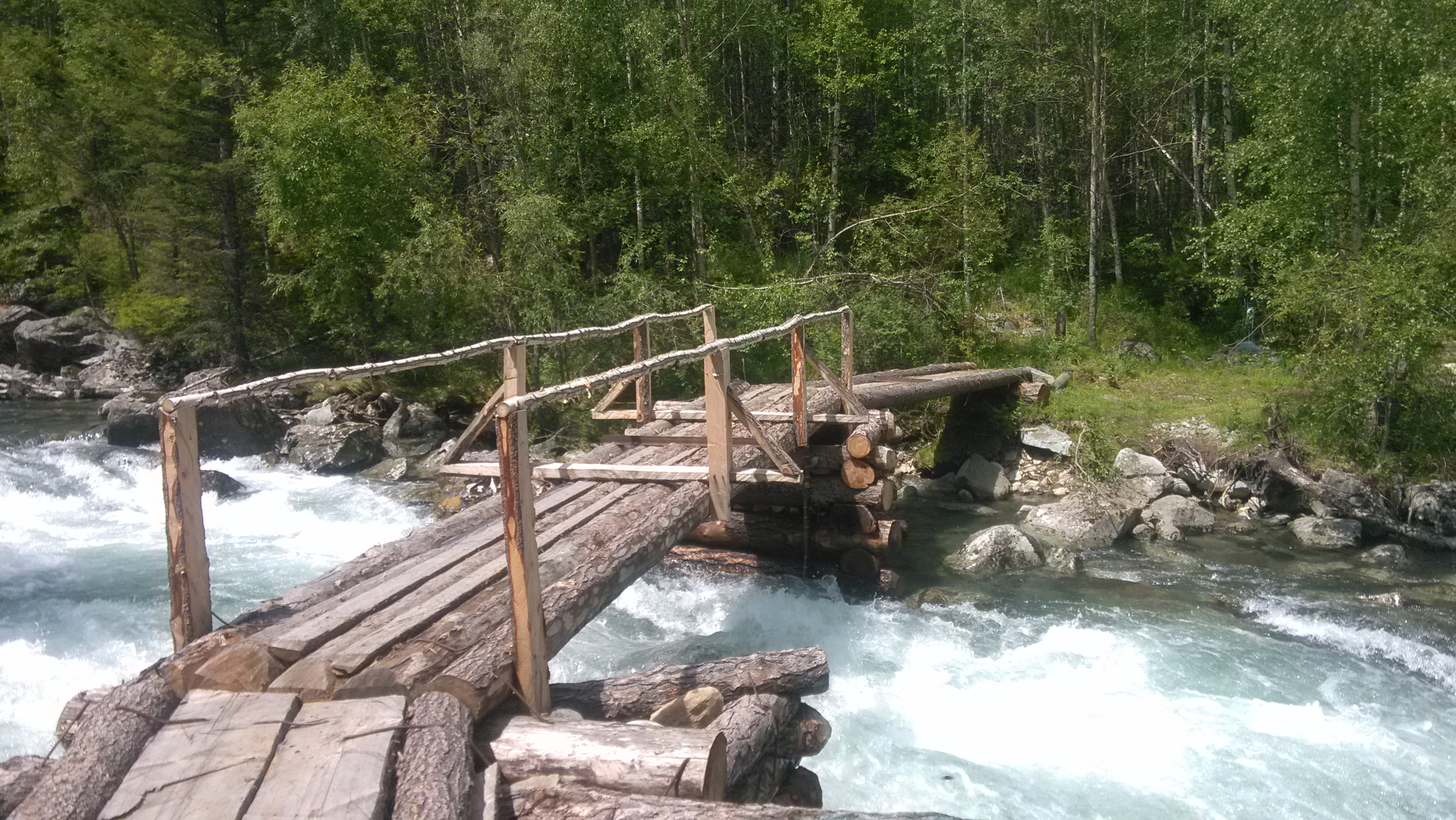 The footbridge to the rangers' hut, Katun Nature Reserve This image is related to the protected area of Russia number 0400042